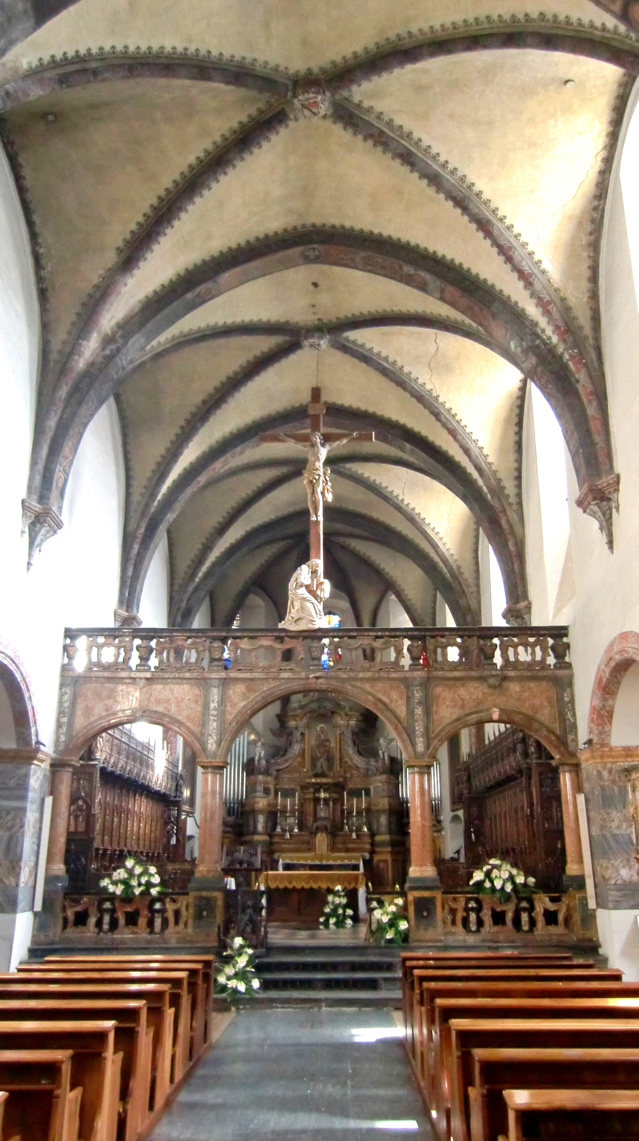 St. Orso parish church, interior, Aosta, Italy